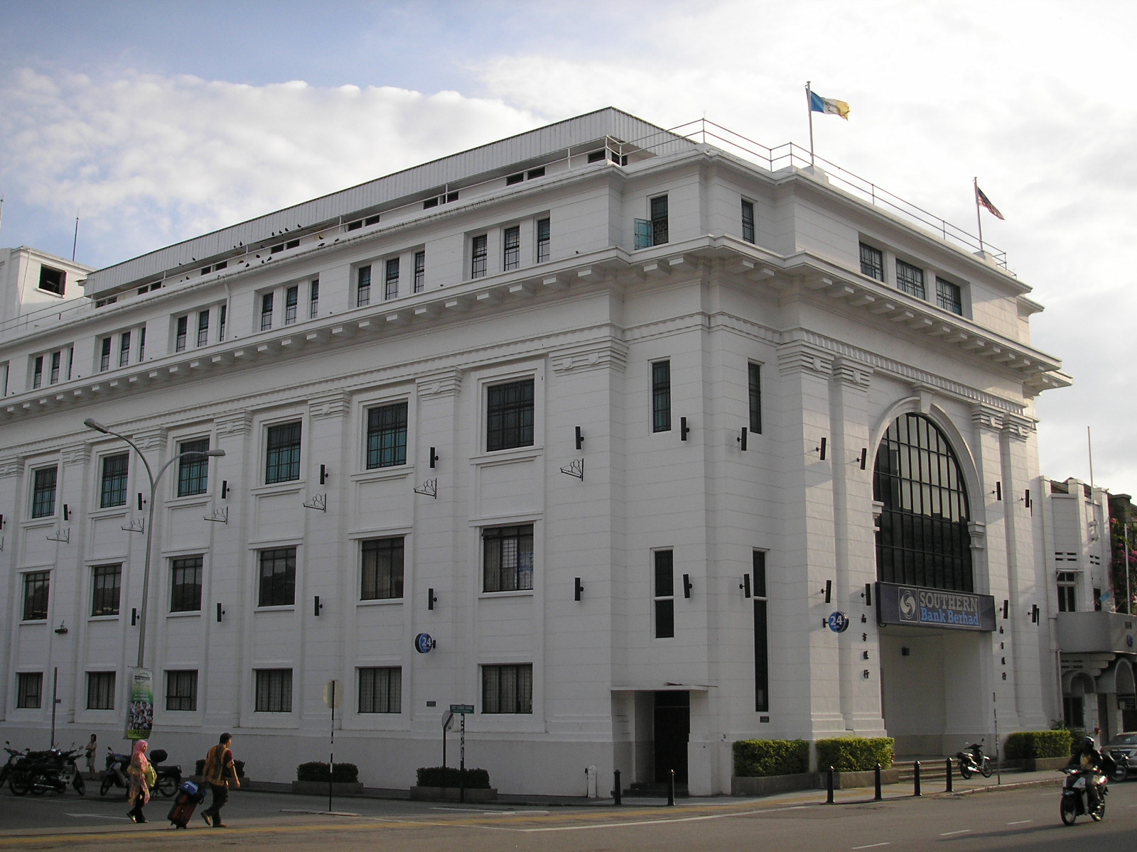 Image of bank buildings at Beach Street in George Town, Penang.